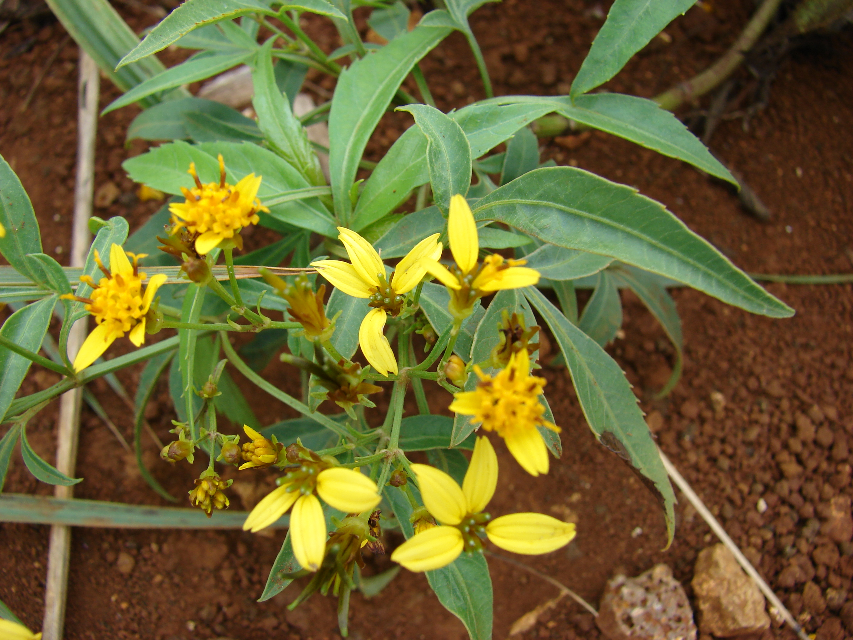 Bidens micrantha (flowers and leaves). Location: Kahoolawe, Uprange